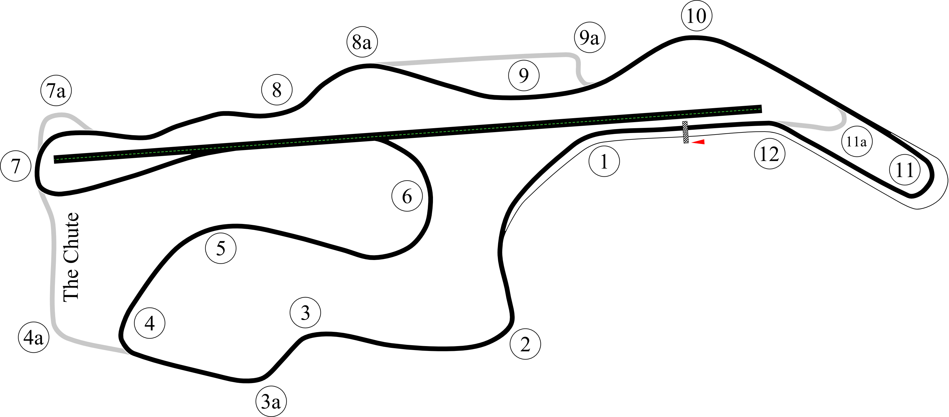 Track map of Sonoma Raceway. This PNG version of Image:Infineon (Sears Point) with emphasis on Long track.svg is for those with browsers like IE7 that don't support SVG and emphasizes the long configuration.